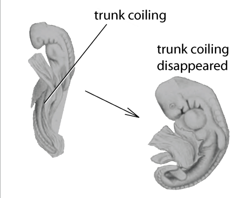 Standard Event System character depiction